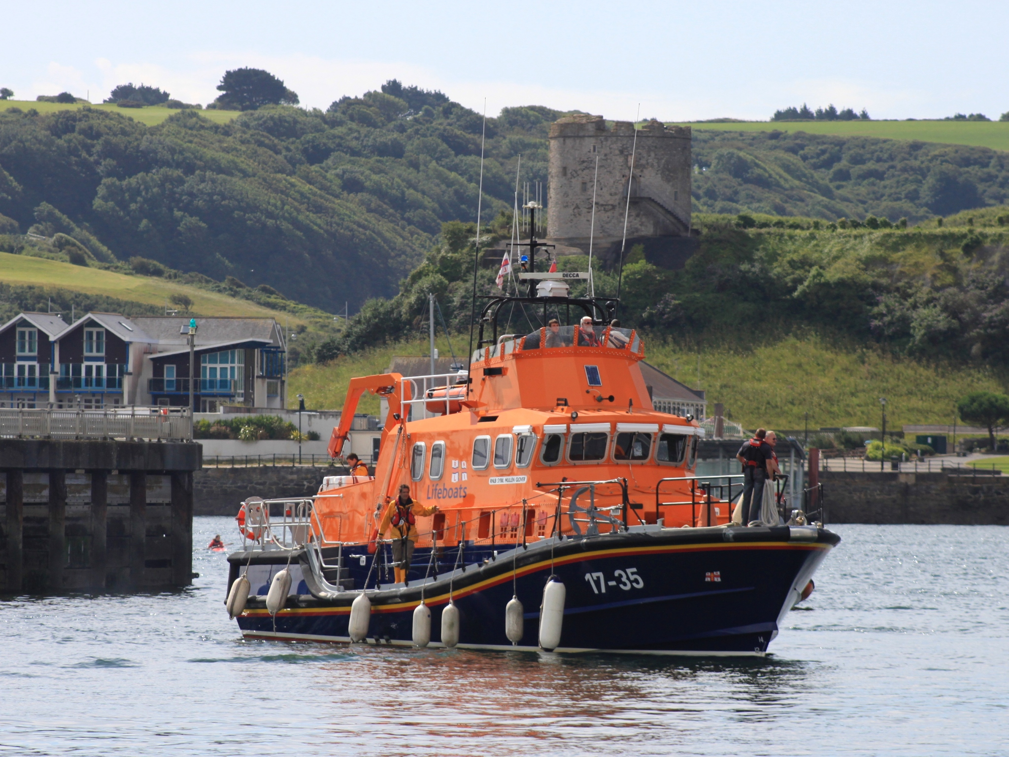 Plymouth's Severn Class lifeboat 17-35 Sybil Mullen Glover is seen turning in the entrance to Sutton Harbour so that it can come alongside the pontoon at Plymouth's Commercial Wharf